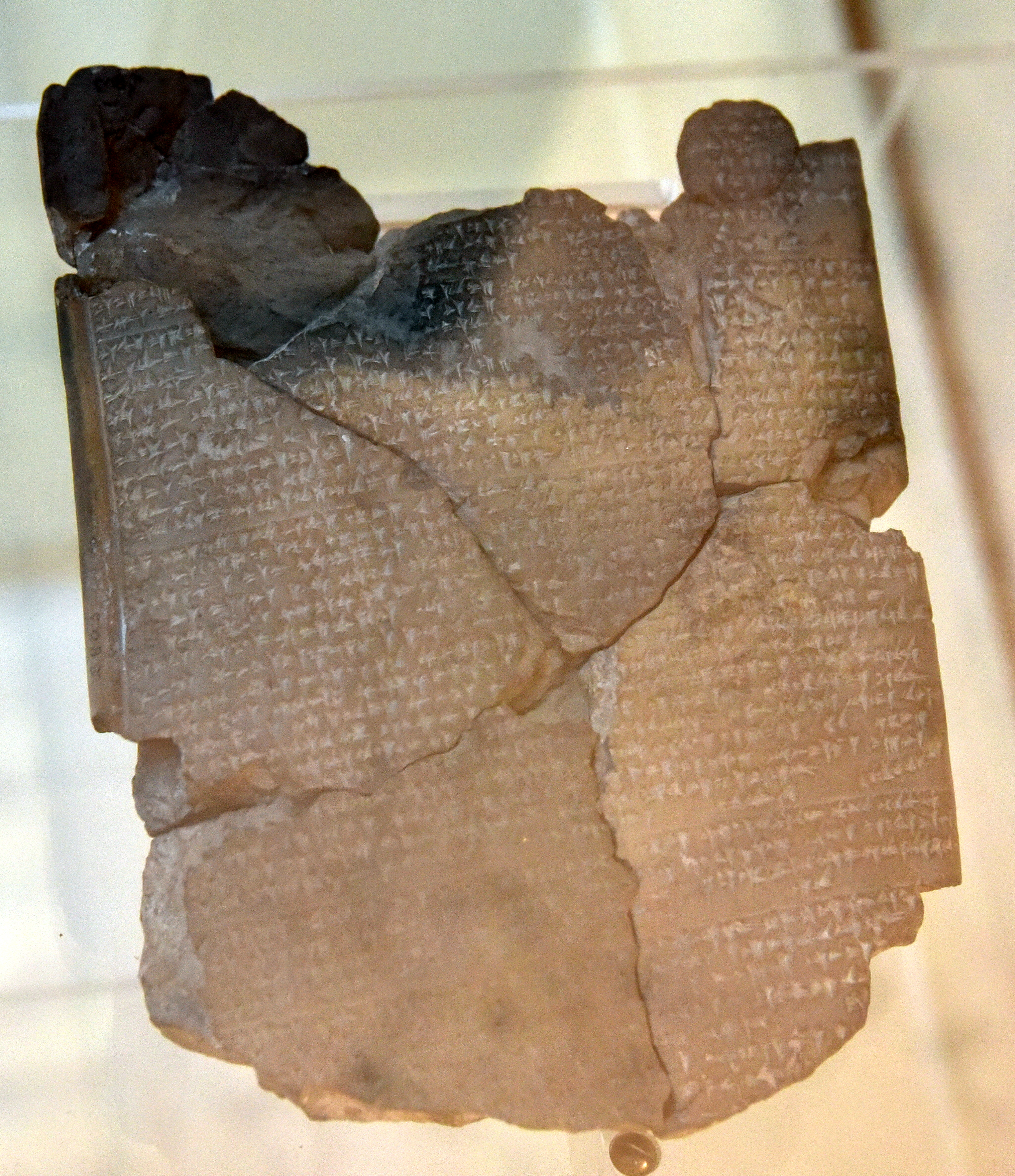 The Hittite king Mursili II (also Muršili II, Mursilis II) prays to the gods to end the epidemic of Plaque. Clay tablet. 13th century BC (original tablet written in the 14th century BC) From Hattusa, Turkey. Istanbul Archaeological Museum.